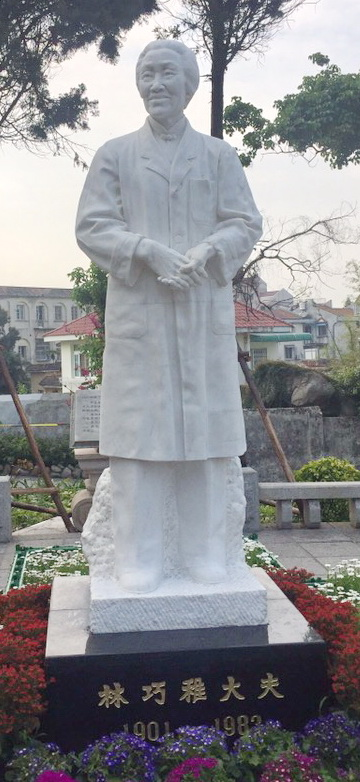 Kha-Ti Lim, a well-known Chinese obstetrician and gynecologist